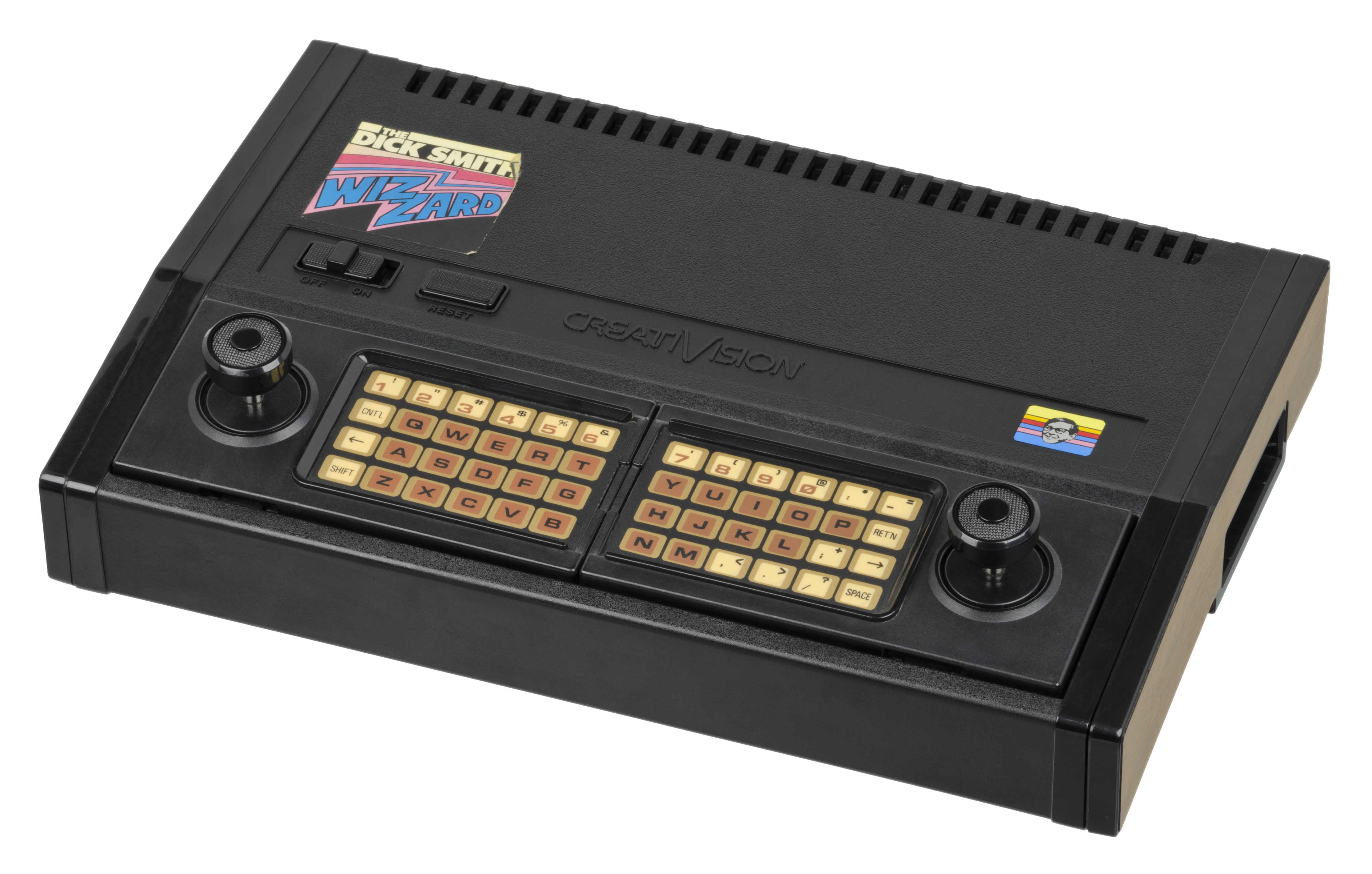 The VTech CreatiVision (seen here as the rebranded "Dick Smith Wizzard," which was sold through the Australian Dick Smith Electronics stores), a video game console and computer hybrid sold by the Hong Kong company VTech beginning in 1982.